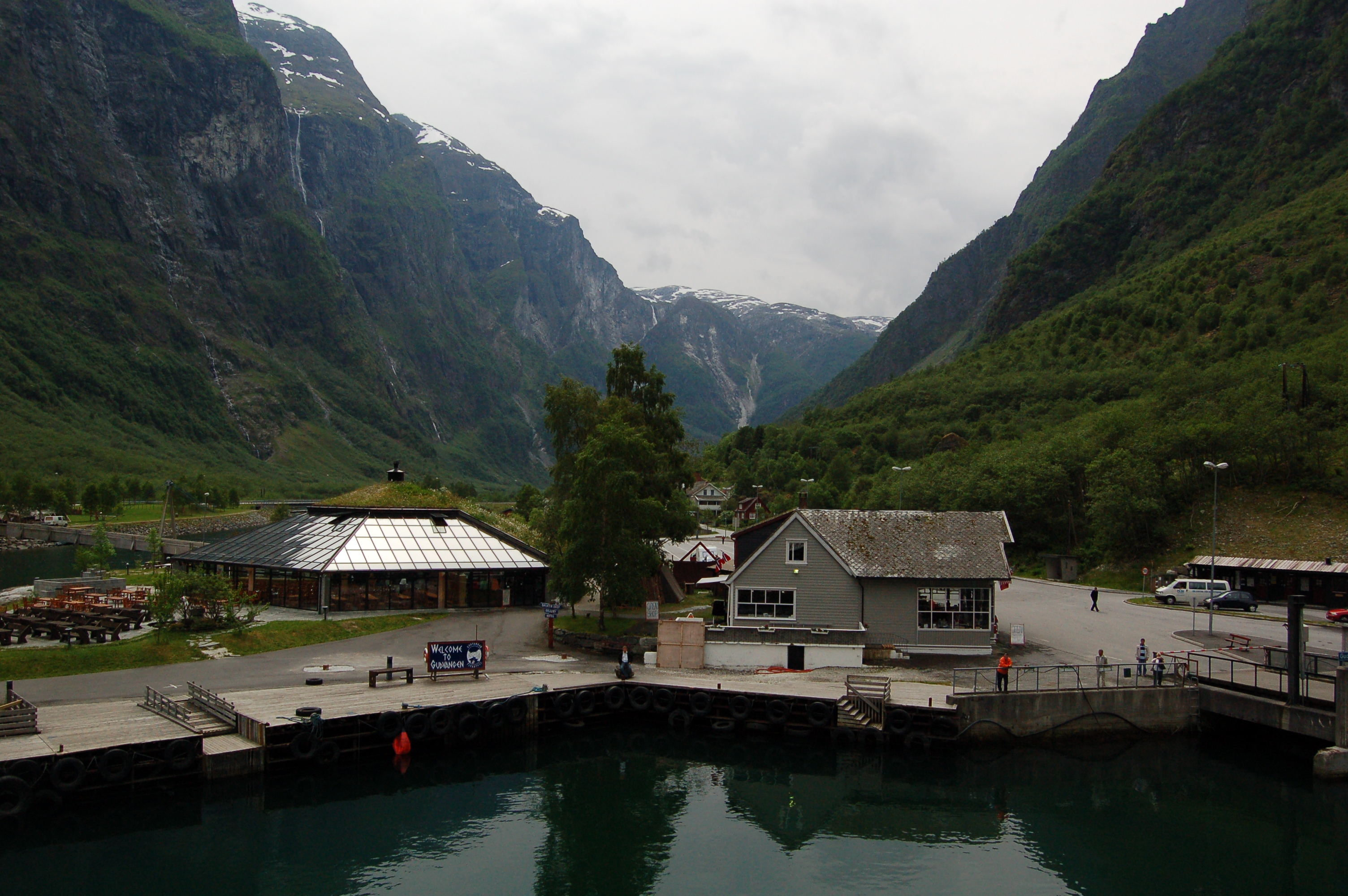 Gudvangen the village at the bottom of a valley